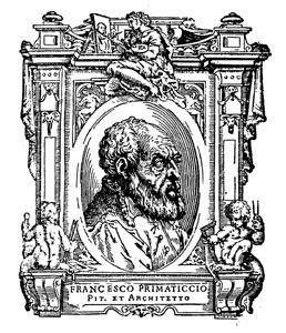 Illustratio from "Le Vite" by Giorgio Vasari, edition of 1568. For the artist portrayed see filename